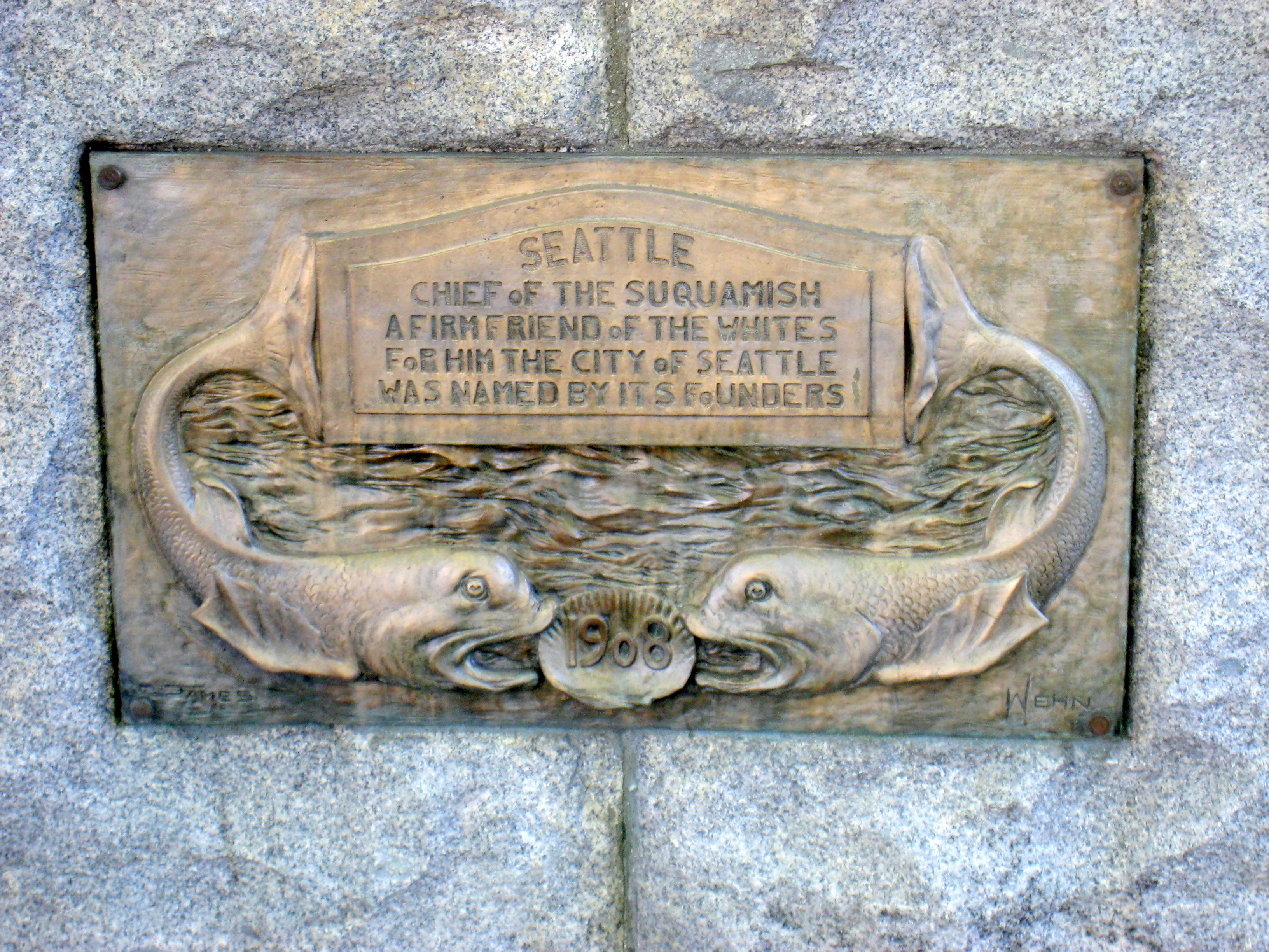 Statue of Seattle, Chief of the Suquamish; Seattle, Washington, USA. Sculpted by local sculptor James Wehn, unveiled November 13, 1912. On the National Register of Historic Places, ID #84003502. I took this photograph.